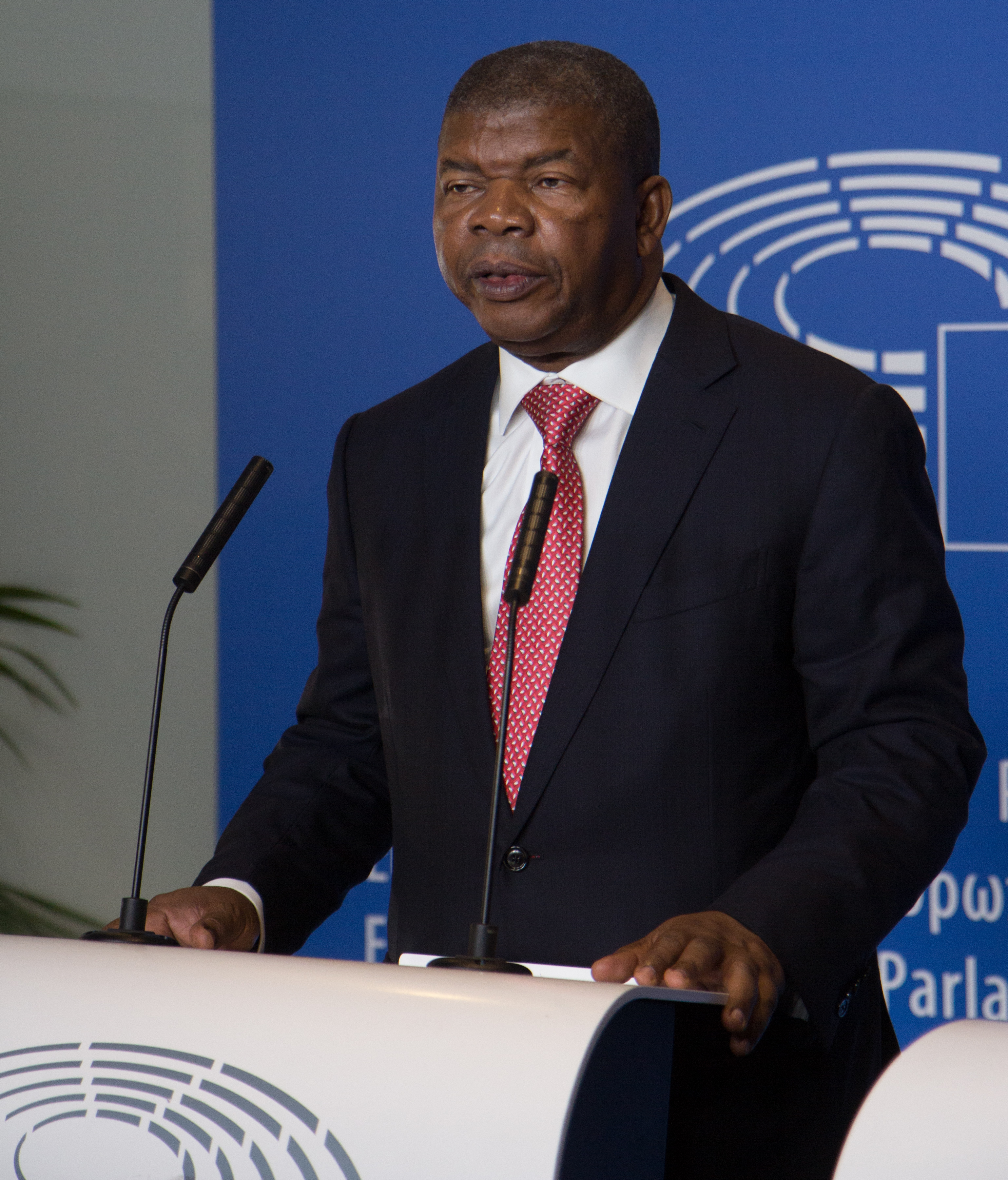 João Manuel Gonçalves Lourenço (President of Angola) at the European Parliament in Strasbourg.